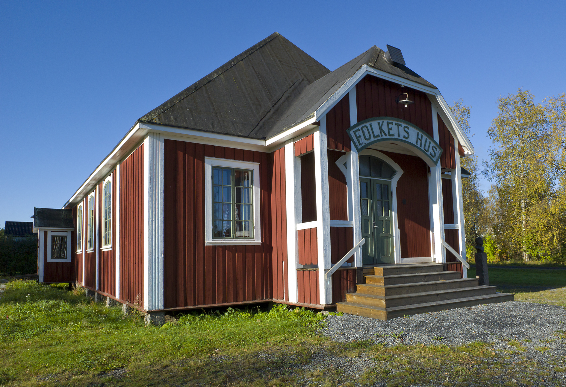 Hissmofors People's House